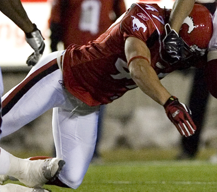 Avon Cobourne stiff-arming a defender.